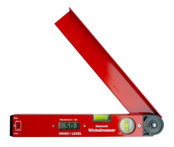 Electronic protractor for quick and reliable measurement and duplication of angles - just take measurements direct from drawings and then transfer where they are needed.